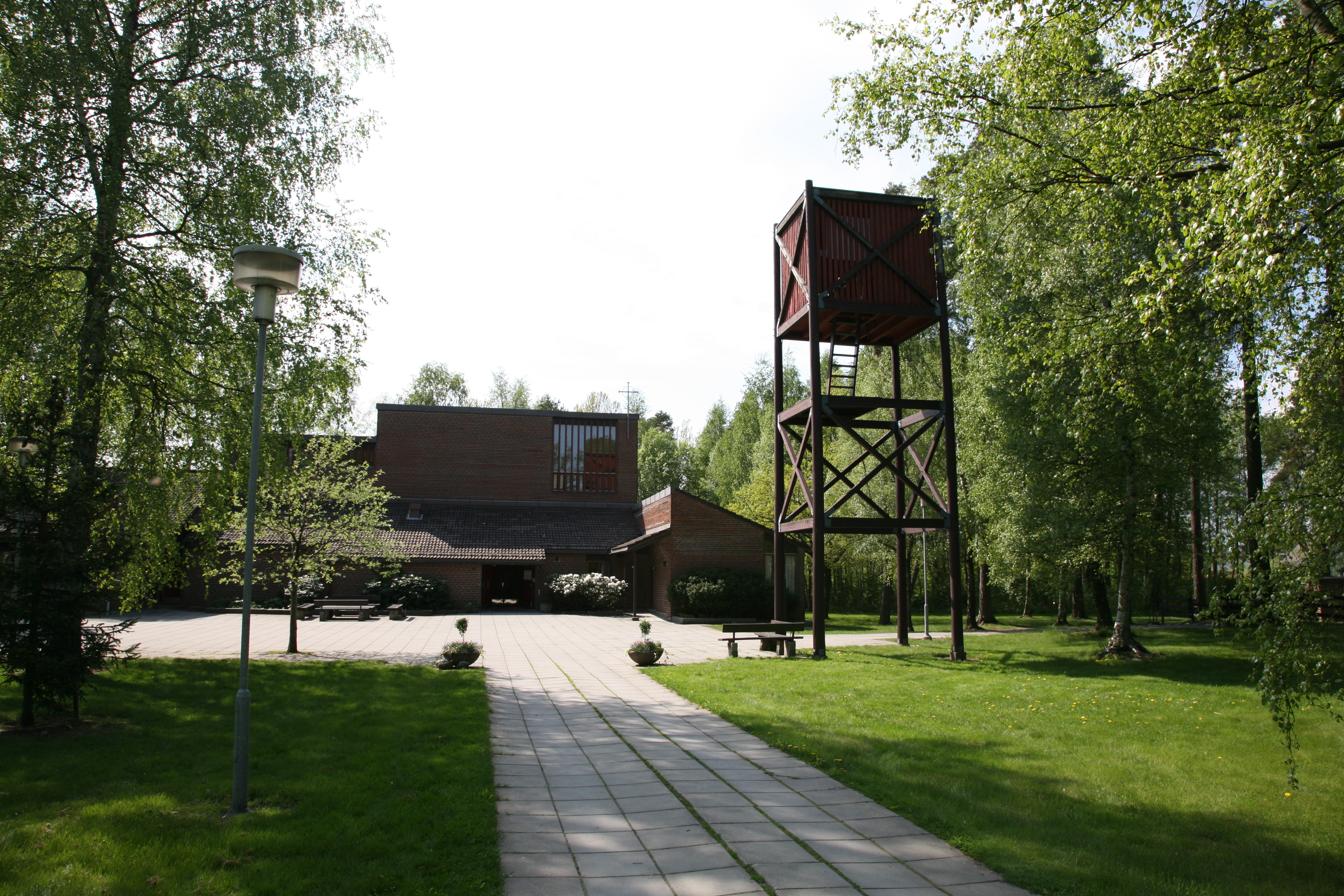 Ekholt churck from 1980. In Rygge in Østfold.